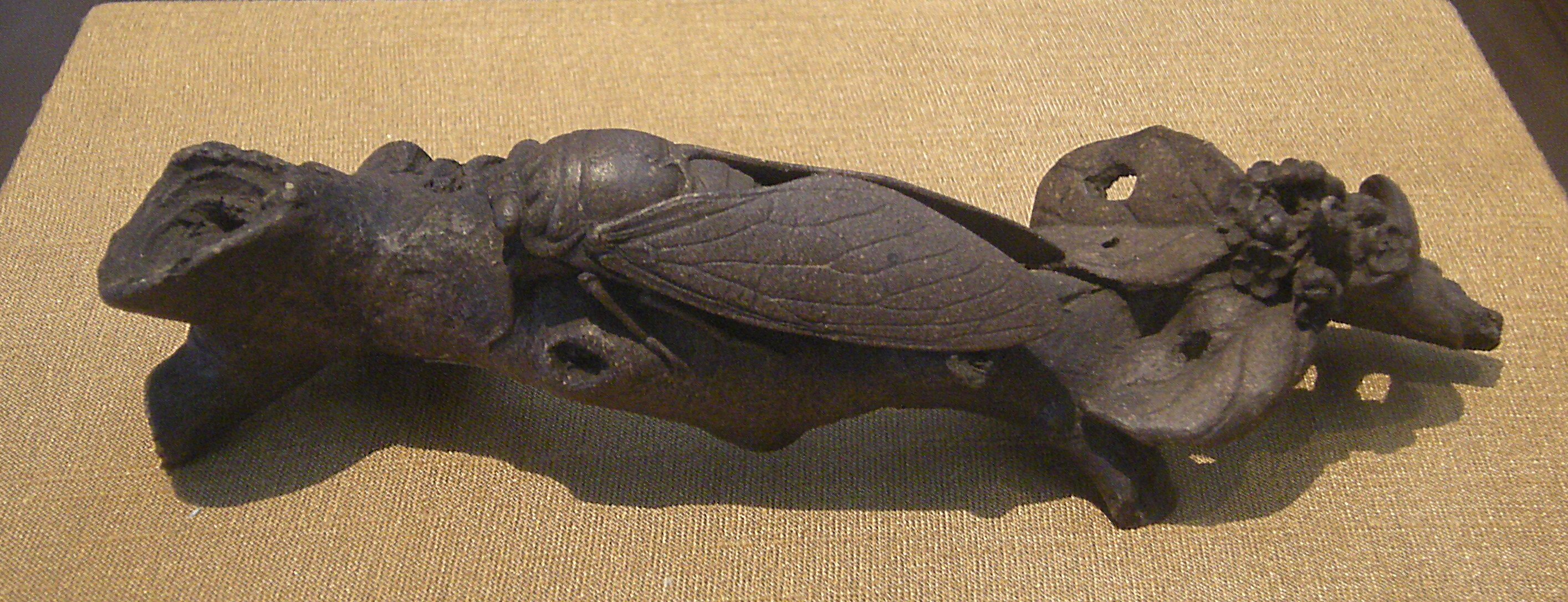 Zisha brush rest in the shape of a cicada on sweet-scented osmanthus twig(made by Chen mingyuan) in Suzhou museum。 Period：Qing Dynasty 中文（中国大陆）: 苏州博物馆藏清代陈鸣远款紫砂桂枝歇蝉笔架灰棕色泥含白色泥沙粒，塑枯桂枝一段，上歇一蝉。底铭“陈鸣远”篆书阳文印记。“桂”与“贵”谐音，桂枝寓意“贵子”。古称科举高中为折桂，此笔架意味子孙仕途昌达，尊荣显贵。陈鸣远，原名陈运，宜兴人，康熙时最有影响的陶艺大家，技艺精湛，塑镂兼长。开创壶体镌刻诗铭做装饰，署款以刻铭和印章并用，将传统绘画与书法艺术引入紫砂铭壶制作工艺，使壶艺、品茗和文人风雅情致融为一体，还擅塑造士人案头摆件及象生果品，惟妙惟肖。